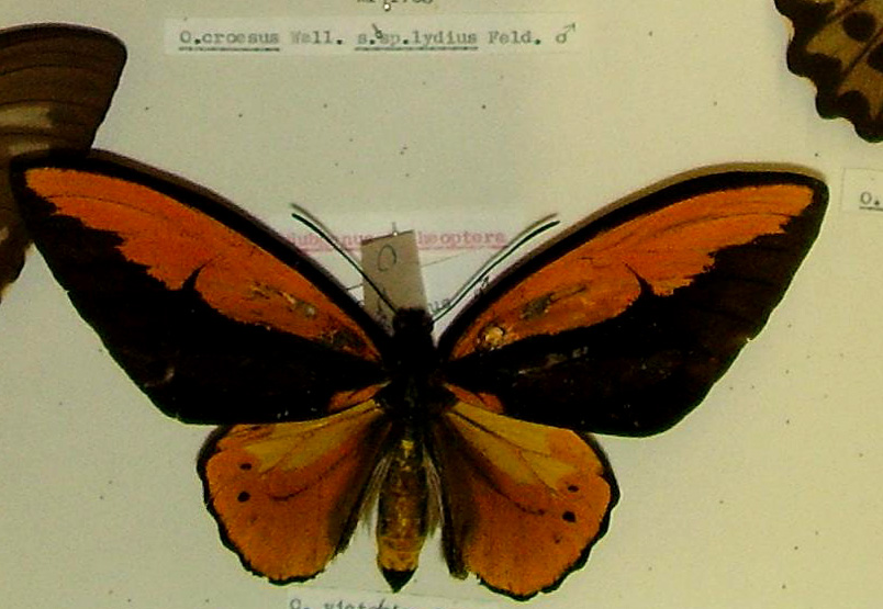 Ornithoptera croesus 19th century specimen William Monad Crawford Collection